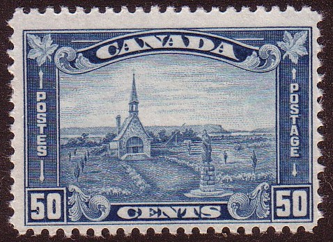 Canadian stamp of 1930, showing the Grand Pré historical site in Nova Scotia.